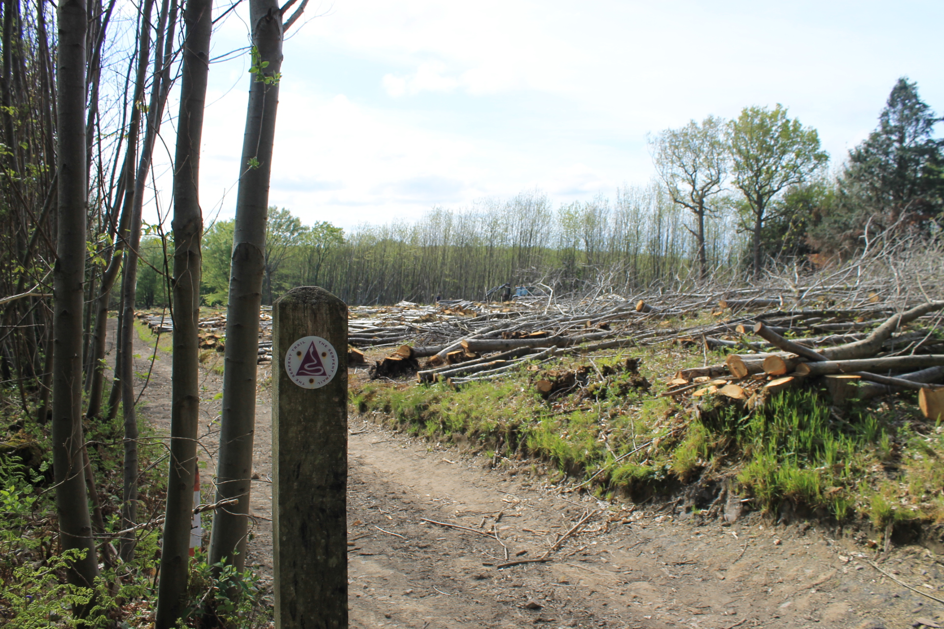 A marker post on the Serpent Trail where it follows a bridleway through chestnut coppice at Flexham Park, near Petworth, West Sussex, England.